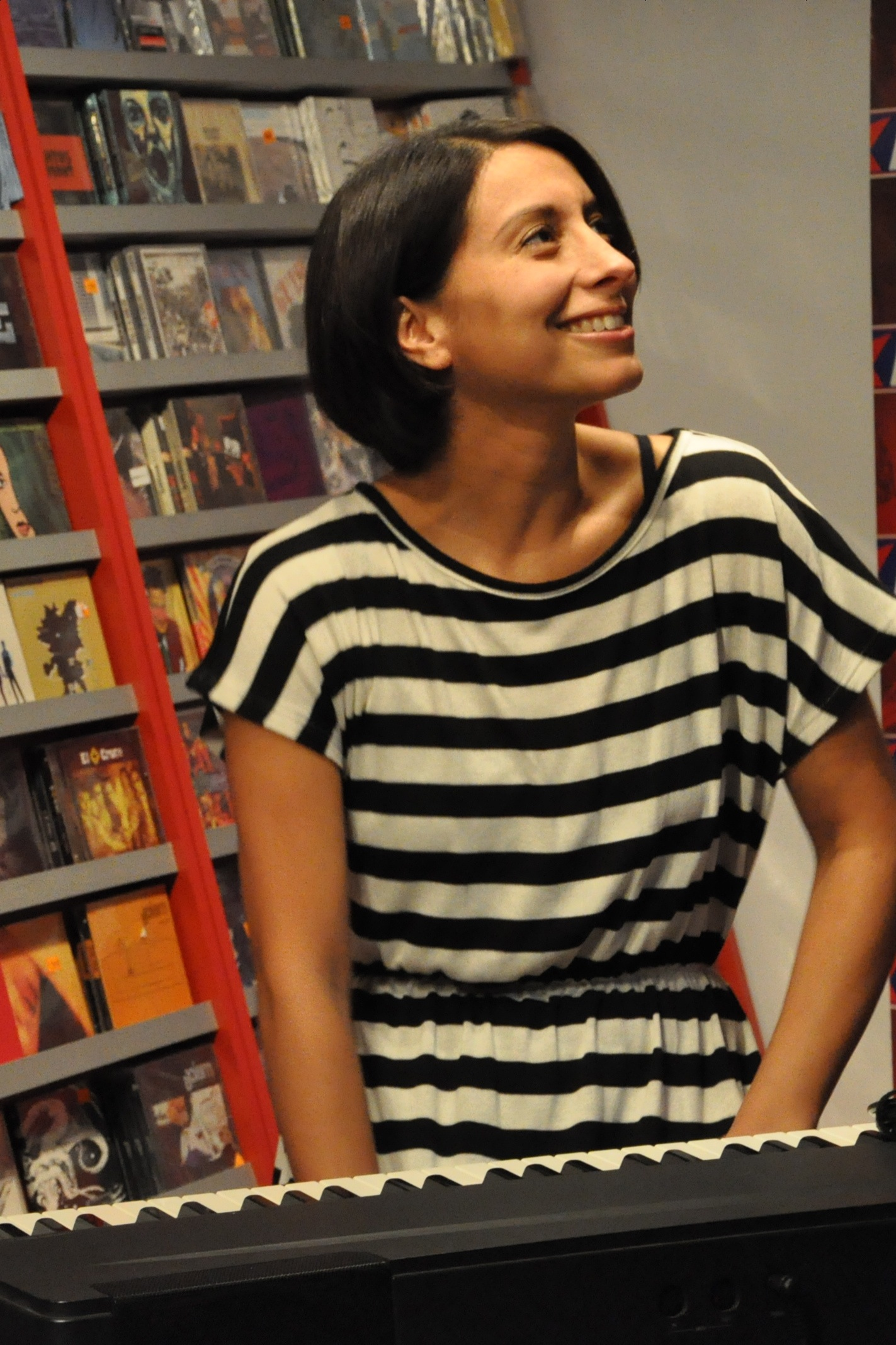 Tienda Musica Chilena